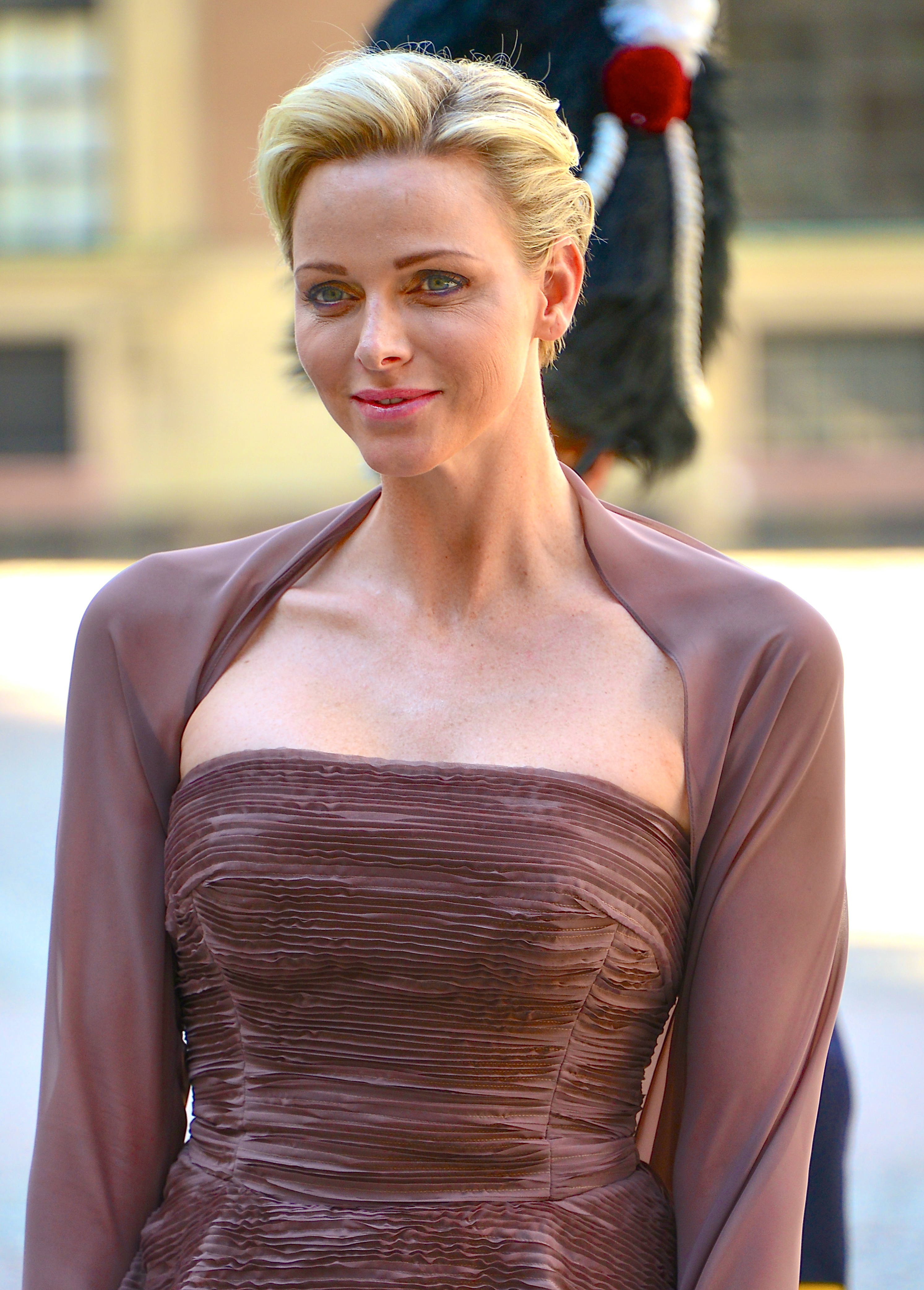 Charlene, Princess of Monaco on the way to the castle church at the Royal Palace in Stockholm before the wedding between Princess Madeleine and Christopher O'Neill June 8, 2013.